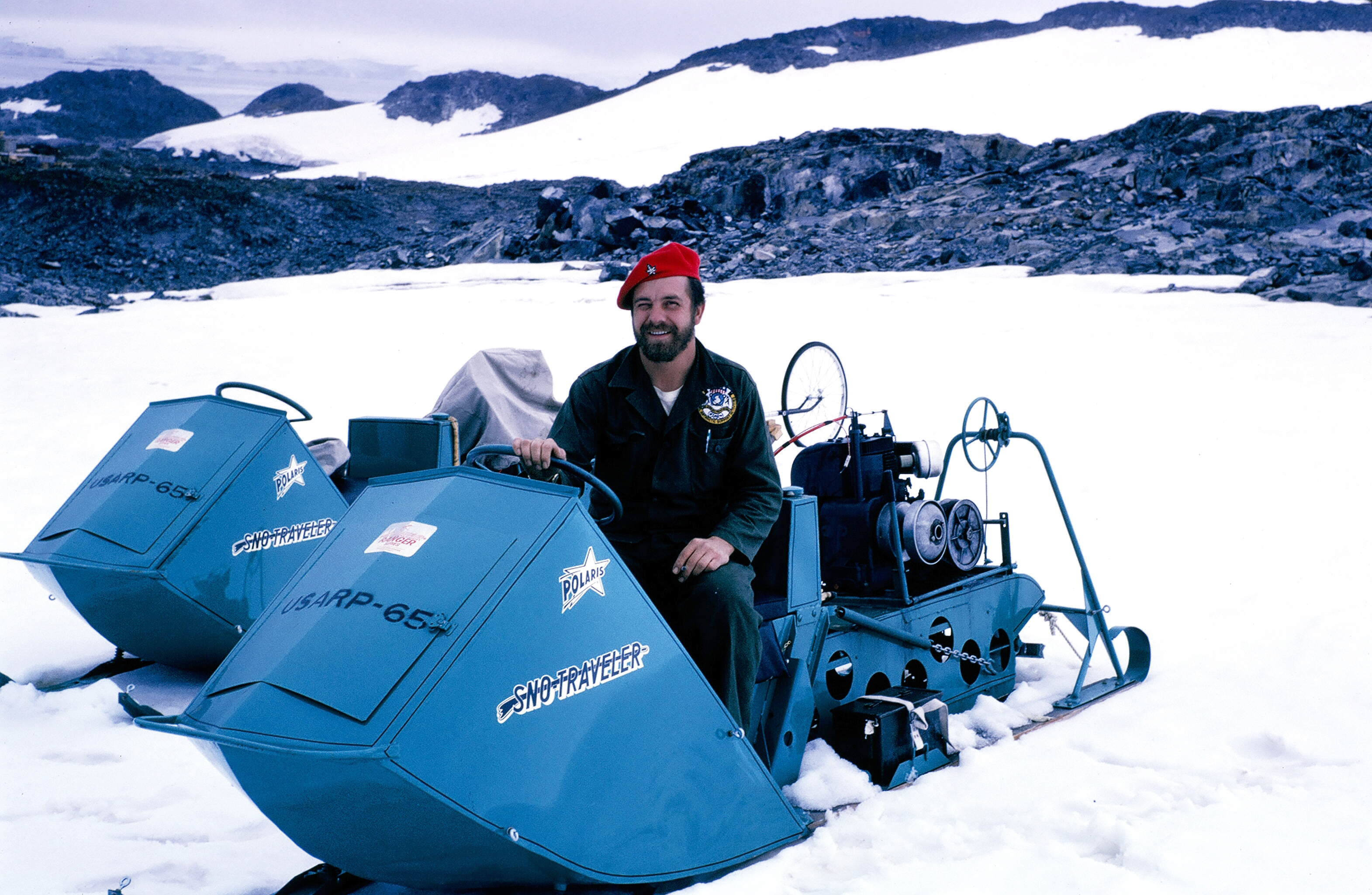 U.S. Navy Chief Radioman Jack Cummings sits on a snowmobile used by station scientists at Old Palmer Station in the mid-1960s. The current Palmer Station is situated about one mile away from Old Palmer on Anvers Island near the Antarctic Peninsula.